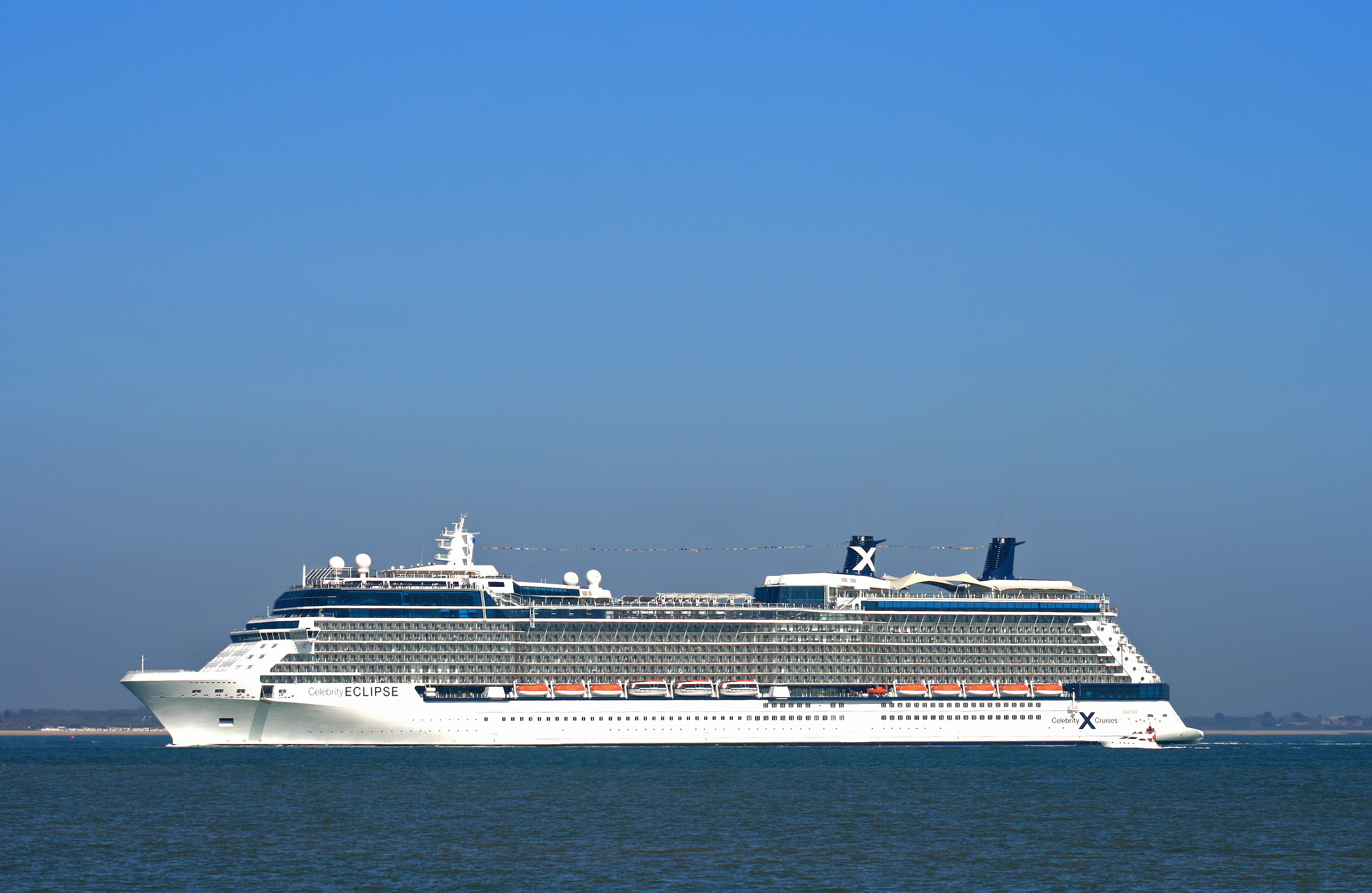 122,000 tons cruise ship Celebrity Eclipse inbound to Southampton at Calshot Light at the entrance to Southampton Water at the end of a pre-maiden voyage crew shakedown cruise on St George's Day, 23rd April 2010. On this voyage the vessel embarked at Bilbao, Spain, 2200 tourists stranded in Southern Europe by airspace closures following the eruption of Icelandic volcano Eyjafjallajökul. At the point this photograph was taken the passengers would have had their first sight of their destination port, Southampton, dead ahead of the bow. Image prepared by me George Hutchinson using a photograph supplied by Brian Burnell. The photograph should be attributed to Brian Burnell. Wikipedia editors are reminded that the copyright remains with the photographer, and that the terms of the Creative Commons Attribution-ShareAlike 3.0 Unported Licence that allow editors to reuse this image apply to Wikipedia editors also, as they do to other reusers of this image. Breaches of the licence terms are not only unlawful, but are also antisocial, in that breaches discourage photographers from making their images freely available to everyone without payment. Non-Wikipedia users are requested to advise Brian Burnell of its use other than on Wikipedia.